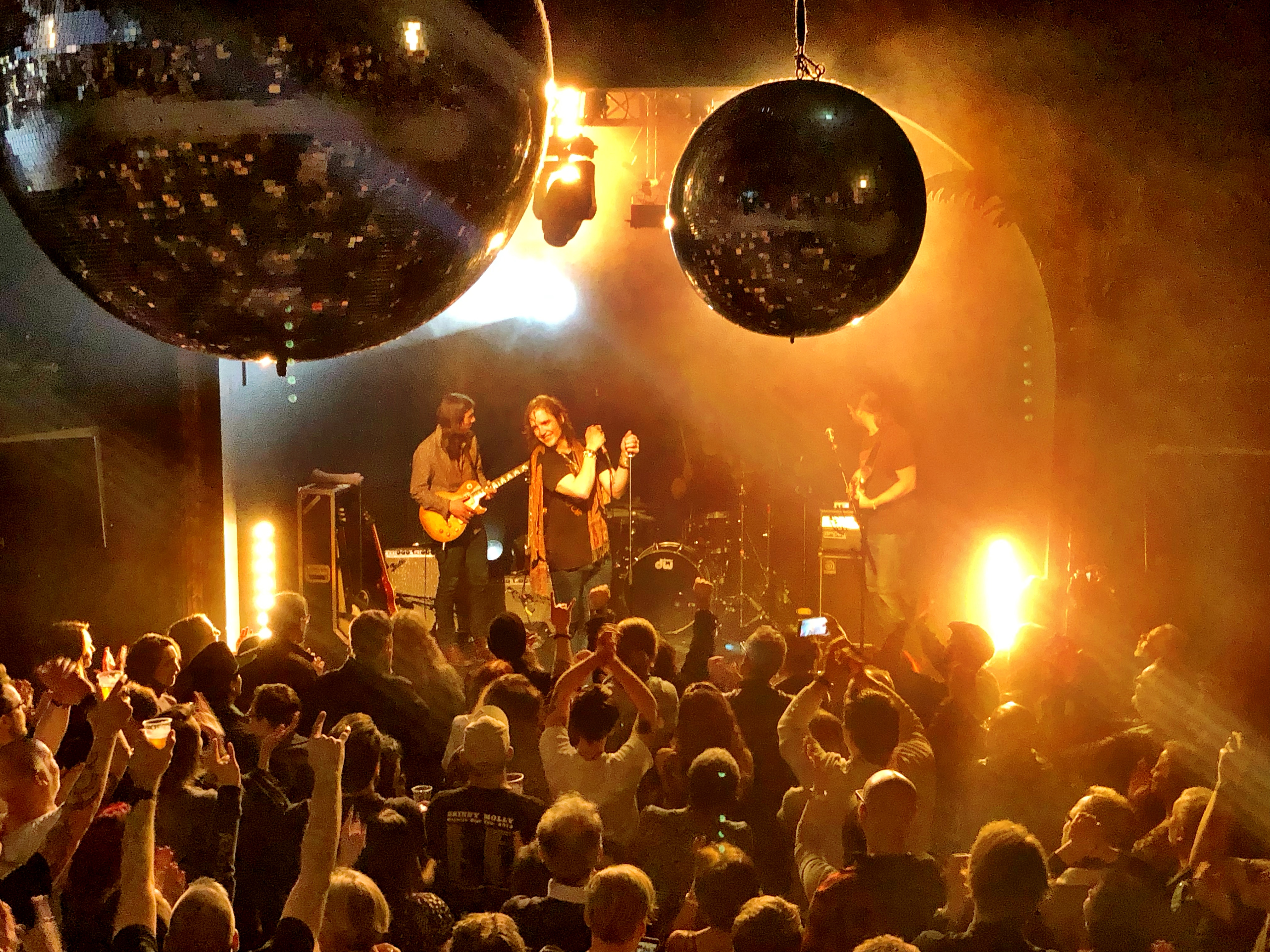 Bishop Gunn headlining in Paris, Les Etoiles, March 2019